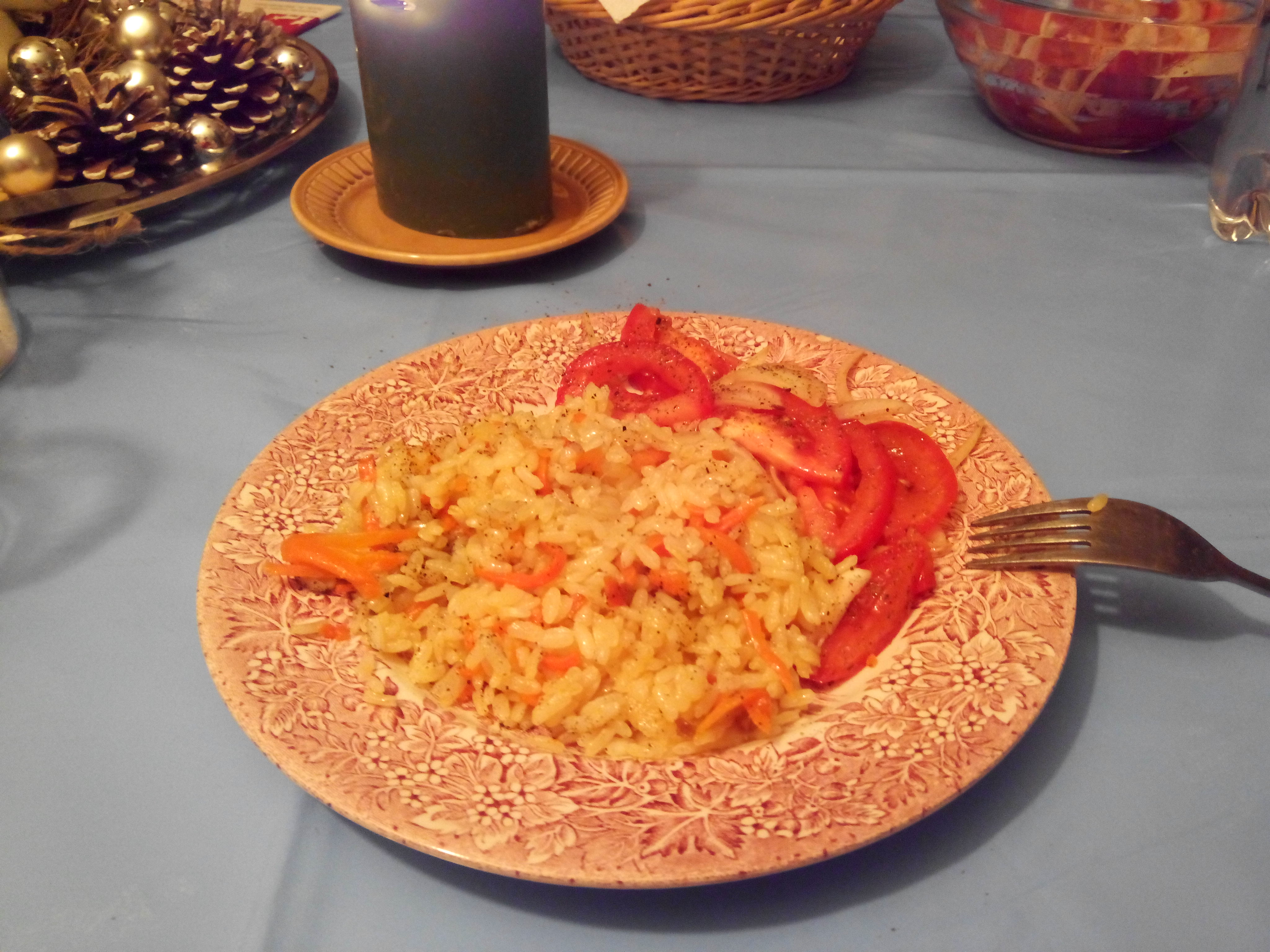 Meatless Pilaf during the Orthodox Nativity Fast